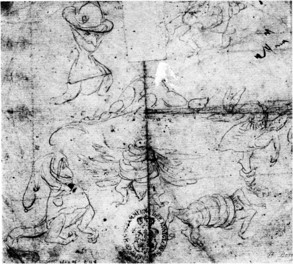 Reverse of a two-sided drawing. For the front, see File:Possibly Jheronimus Bosch 002 recto 01.jpg.